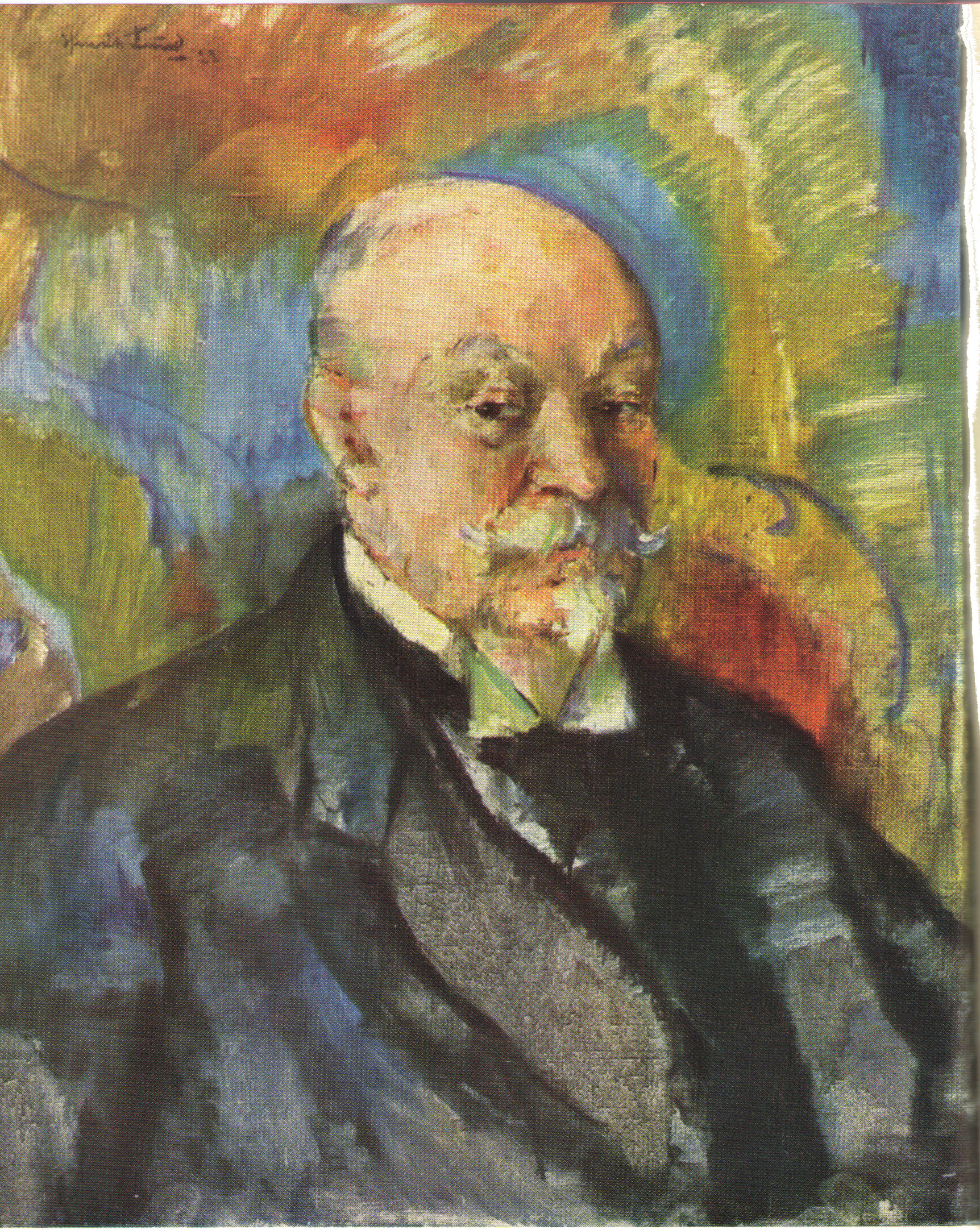 The Norwegian minister of foreign affairs Nils Claus Ihlen.label QS:Len,"The Norwegian minister of foreign affairs Nils Claus Ihlen."